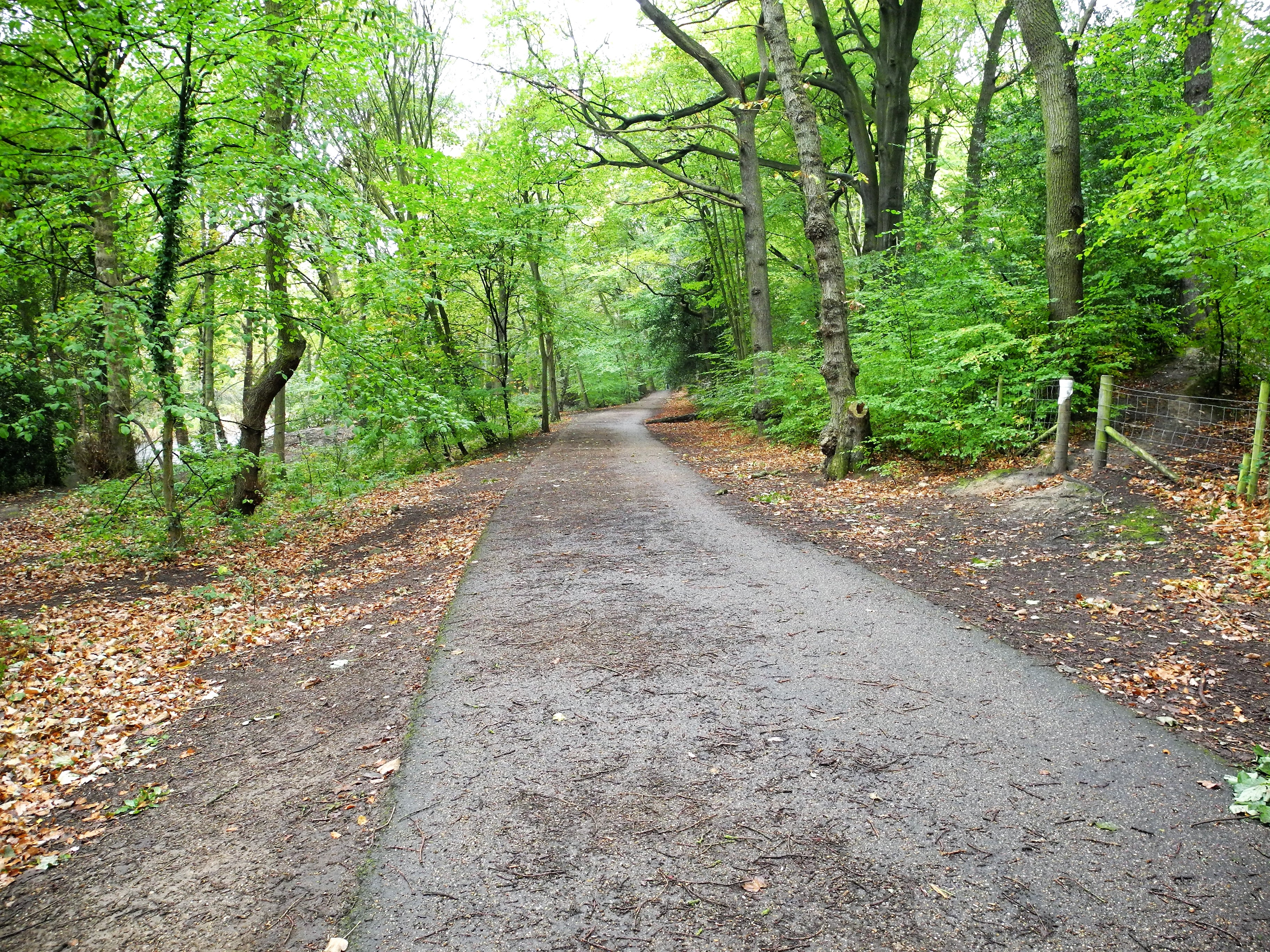 The Upper Don Walk in Beeley Wood, Sheffield, England.